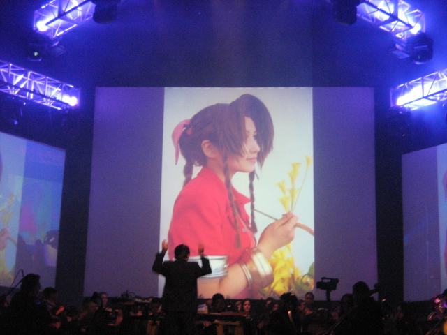 Taken on October 7, 2009 Canon PowerShot A460